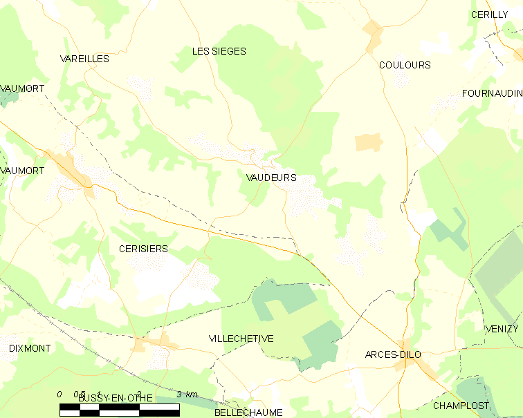 Map of French municipality Vaudeurs